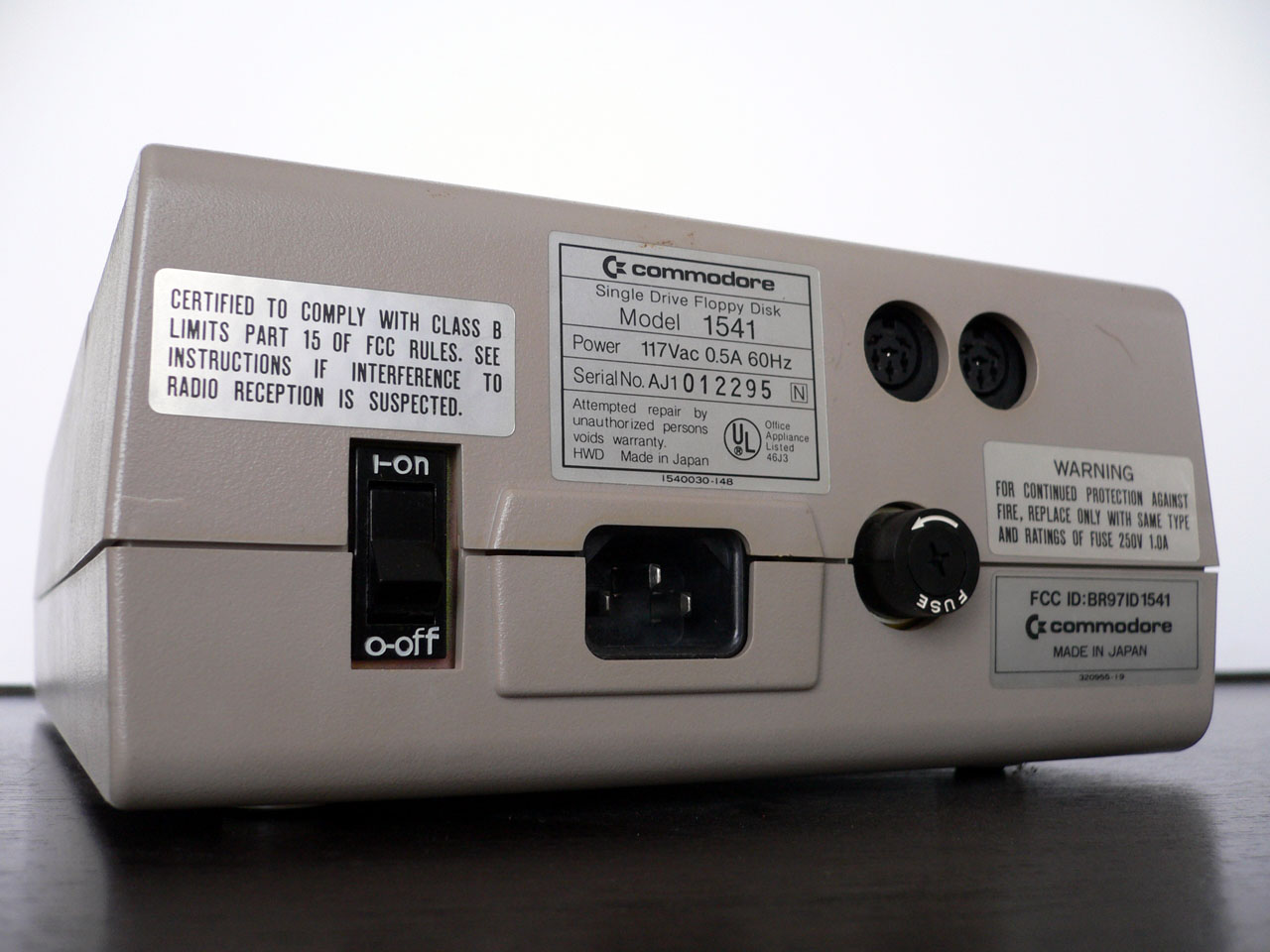 A Commodore 1541 5.25" floppy disk drive, compatible with the Commodore 64. Back panel. Photograph by Nathan Beach, | NathanBeach 20:56, 28 January 2006 (UTC)